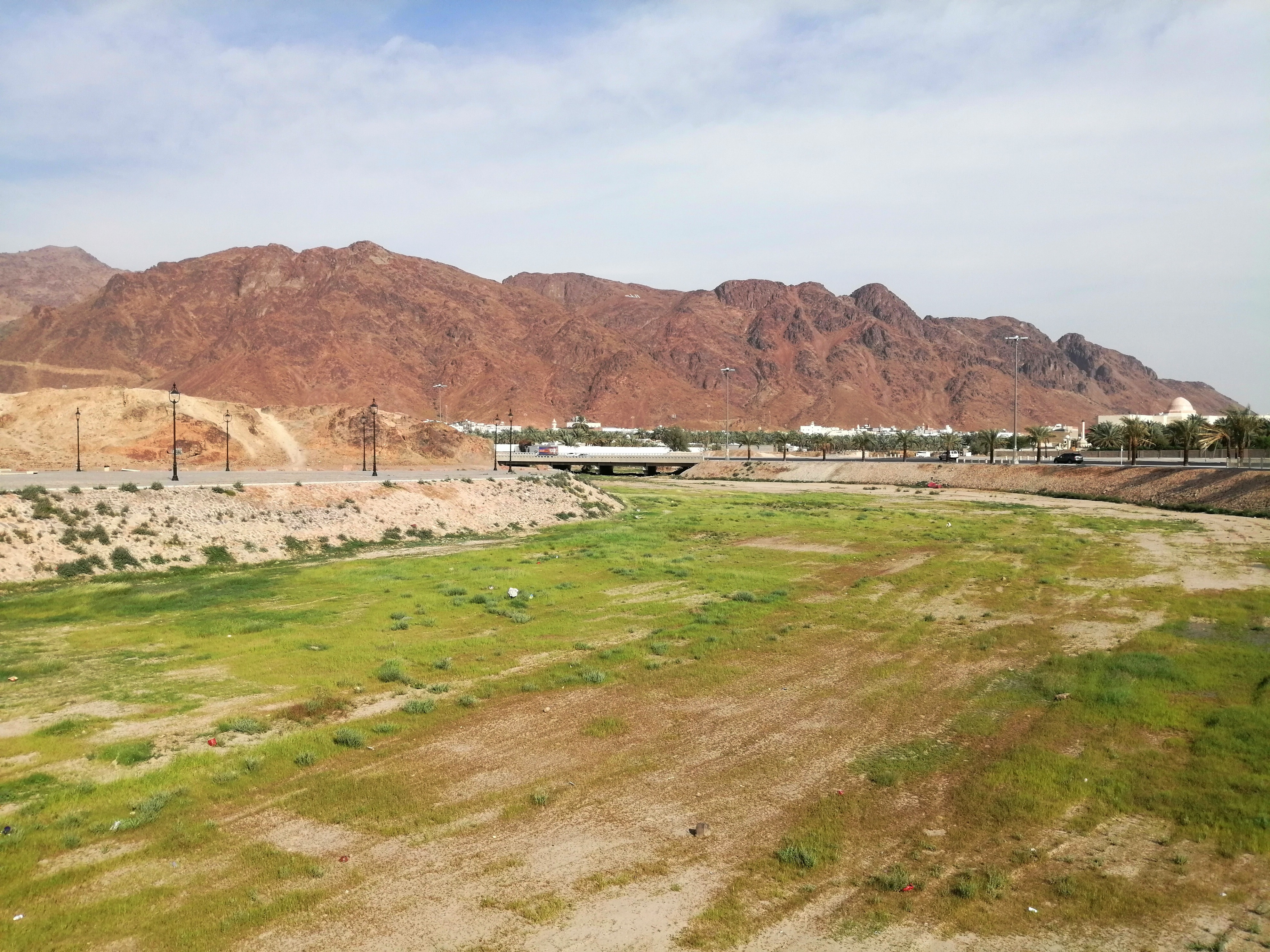 Mount Uhud Green